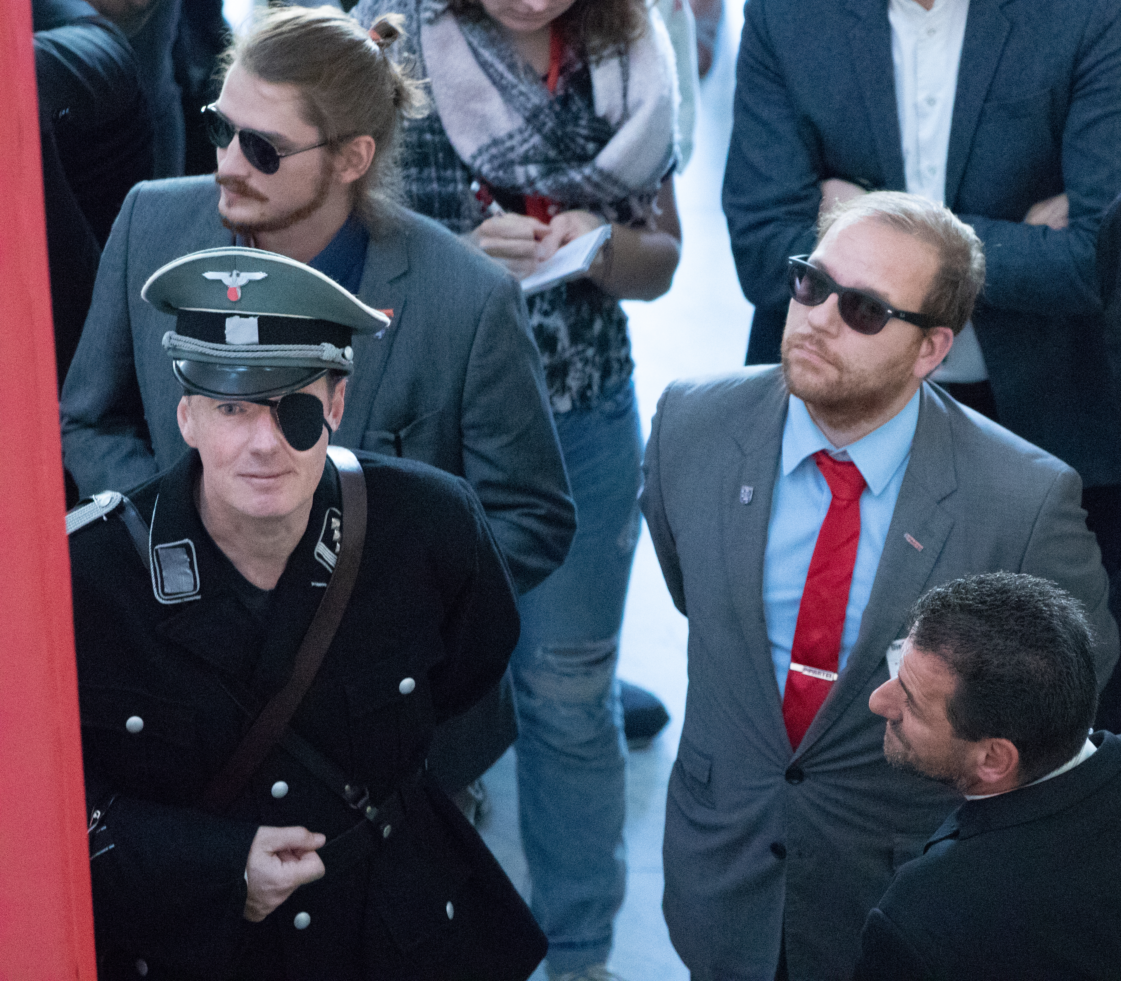 Martin Sonneborn (MEP) in Stauffenberg-costume and Nico Wehnemann from the party Die PARTEI at the Frankfurt book fair 2018.